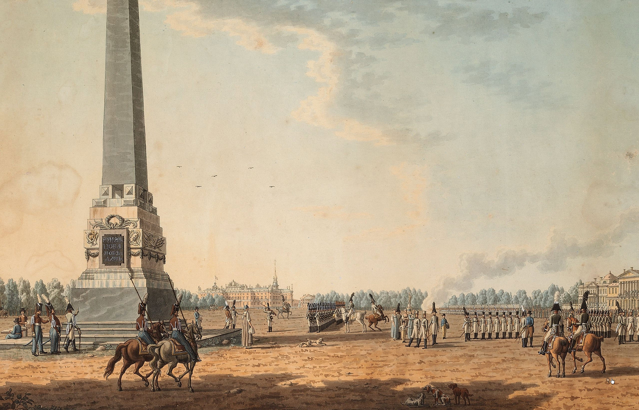 In the foreground - the Rumyantsev obelisk (1799) by architect V. Brenna. In the background - St. Michael Palace (1797-1800) by architects V. I. Bashenov and V. Brenna. To the left - The Summer Garden (laid out in 1704), to the right, behind the Red Canal (dug in 1718), mansions from the late 18th century.